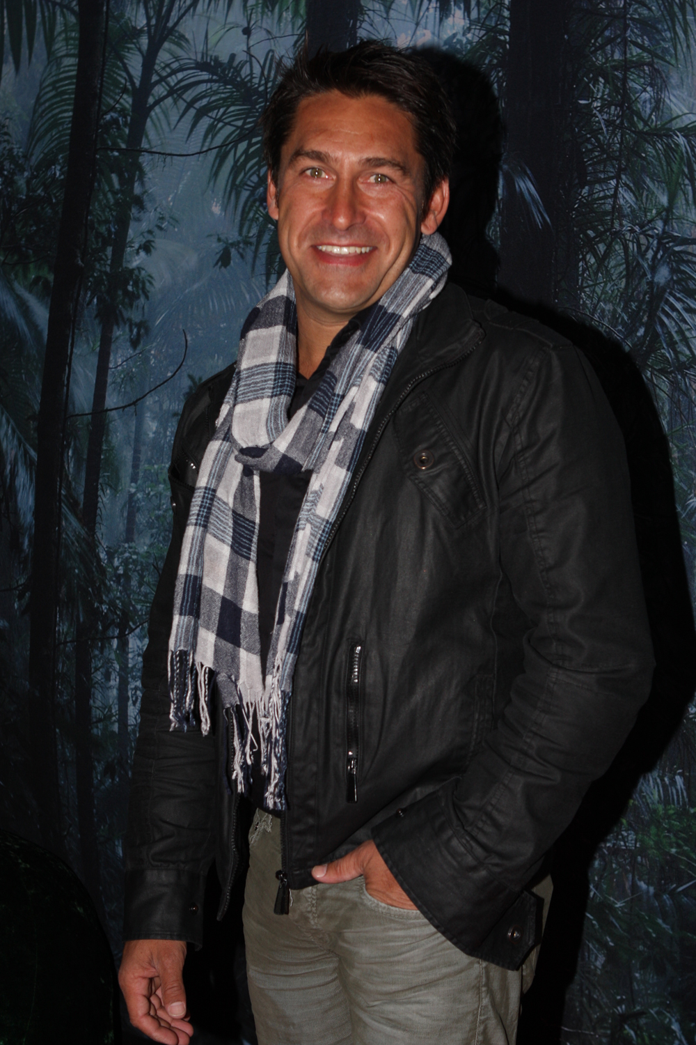 Jamie Durie at OVO opening night celebrity ‘orange’ carpet arrivals.